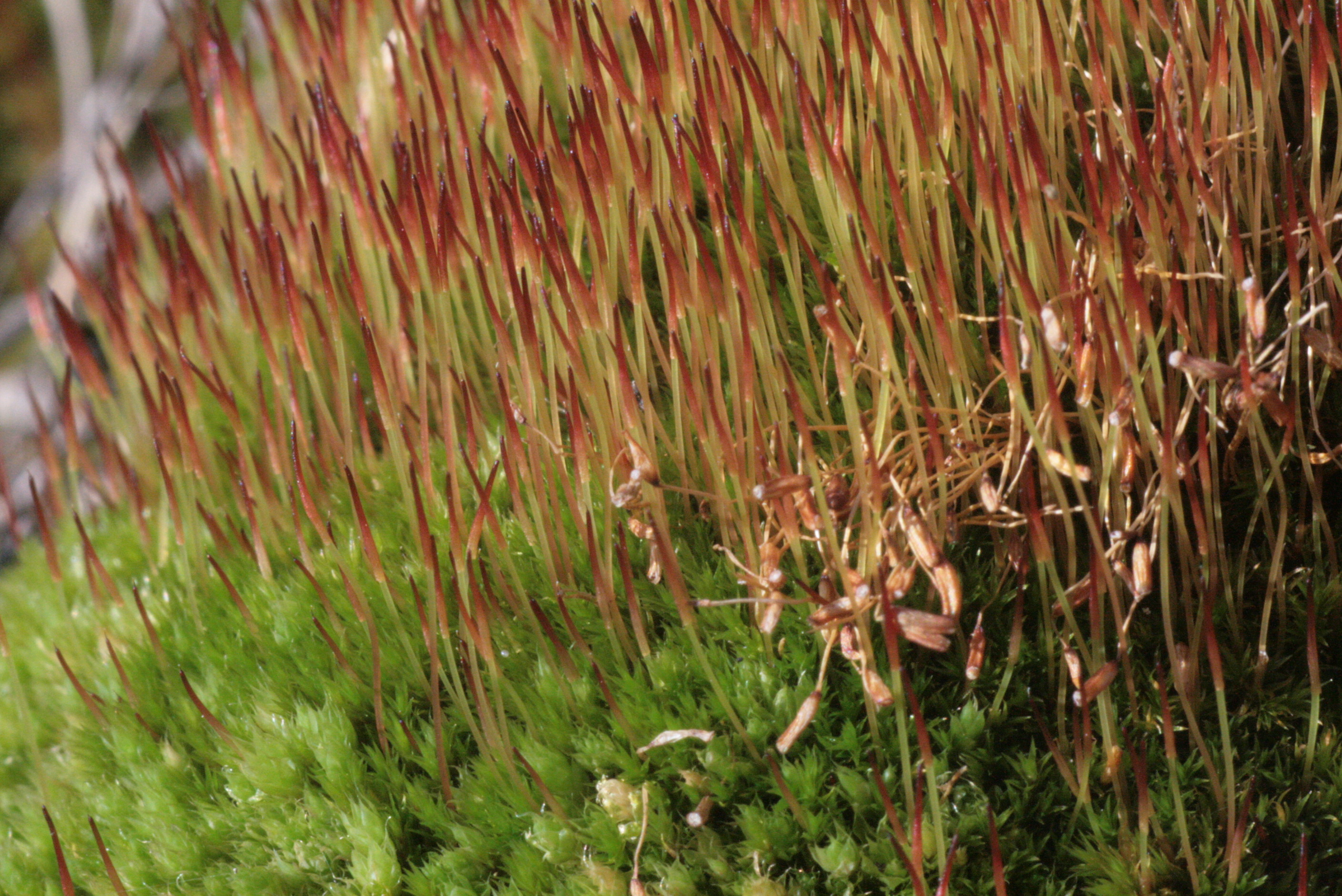 Ceratodon purpureus